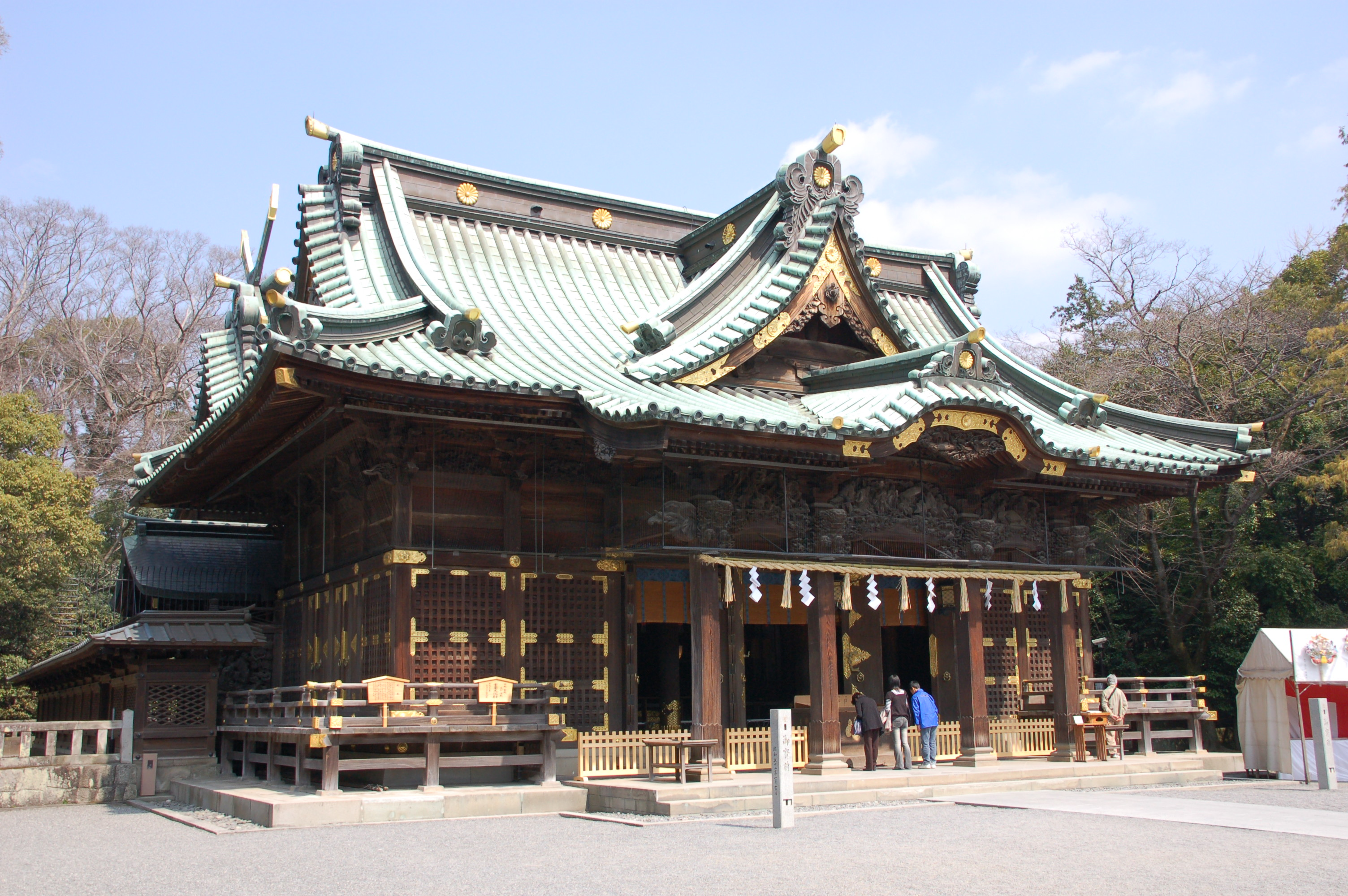 Haiden of Mishima-taisha, in Mishima city, Shizuoka prefecture, Japan.